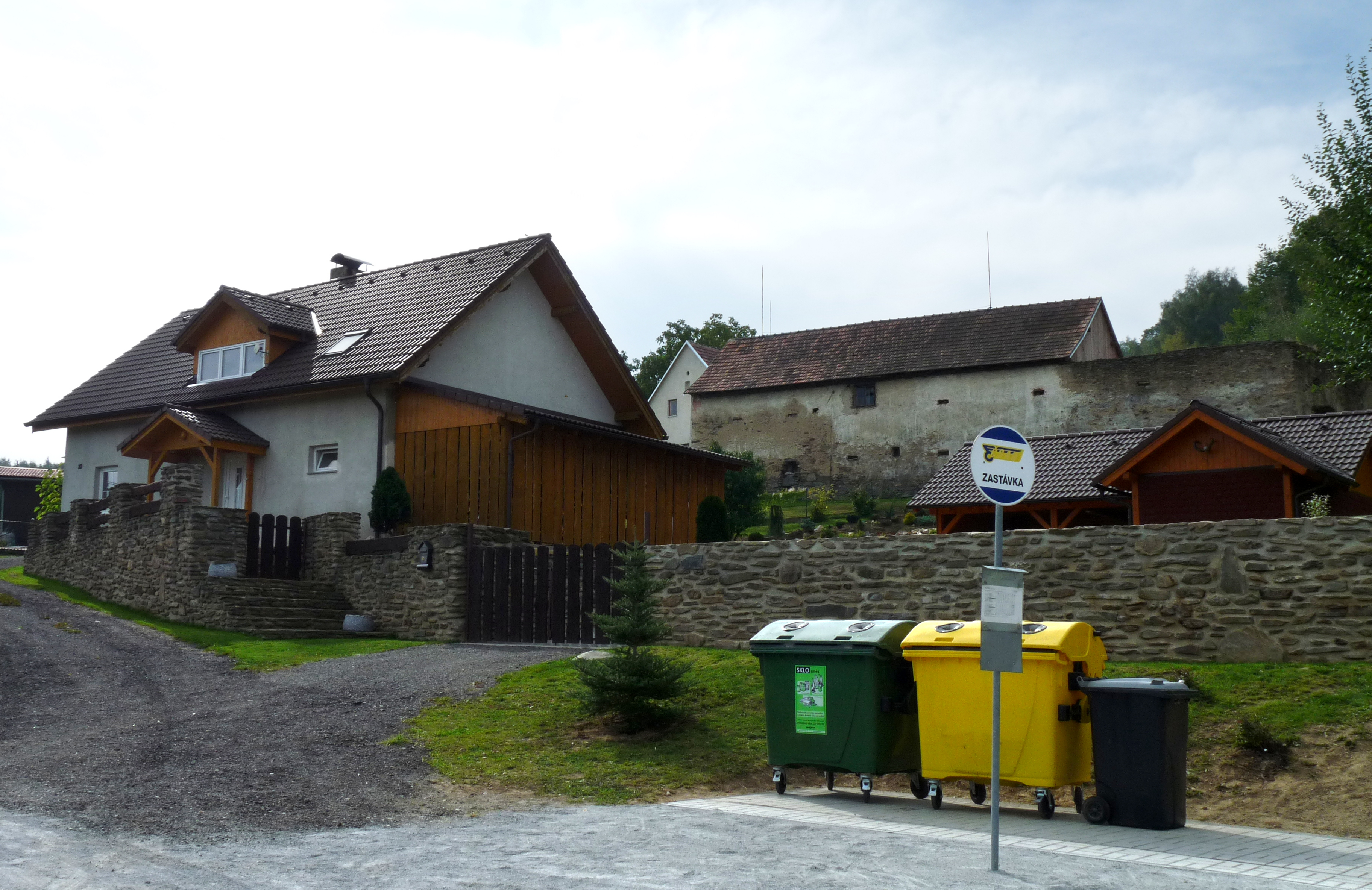 House No 10 in the village of Střítež, Český Krumlov District, South Bohemian Region, Czech Republic.